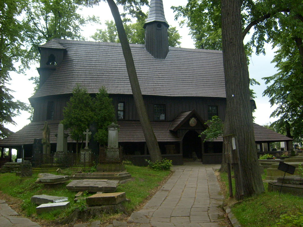 Kostel Panny Marie (Church of Mary) in Broumov, Náchod District, Czech Republic